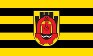 Flag of the city of Pernik, Bulgaria. Own work.